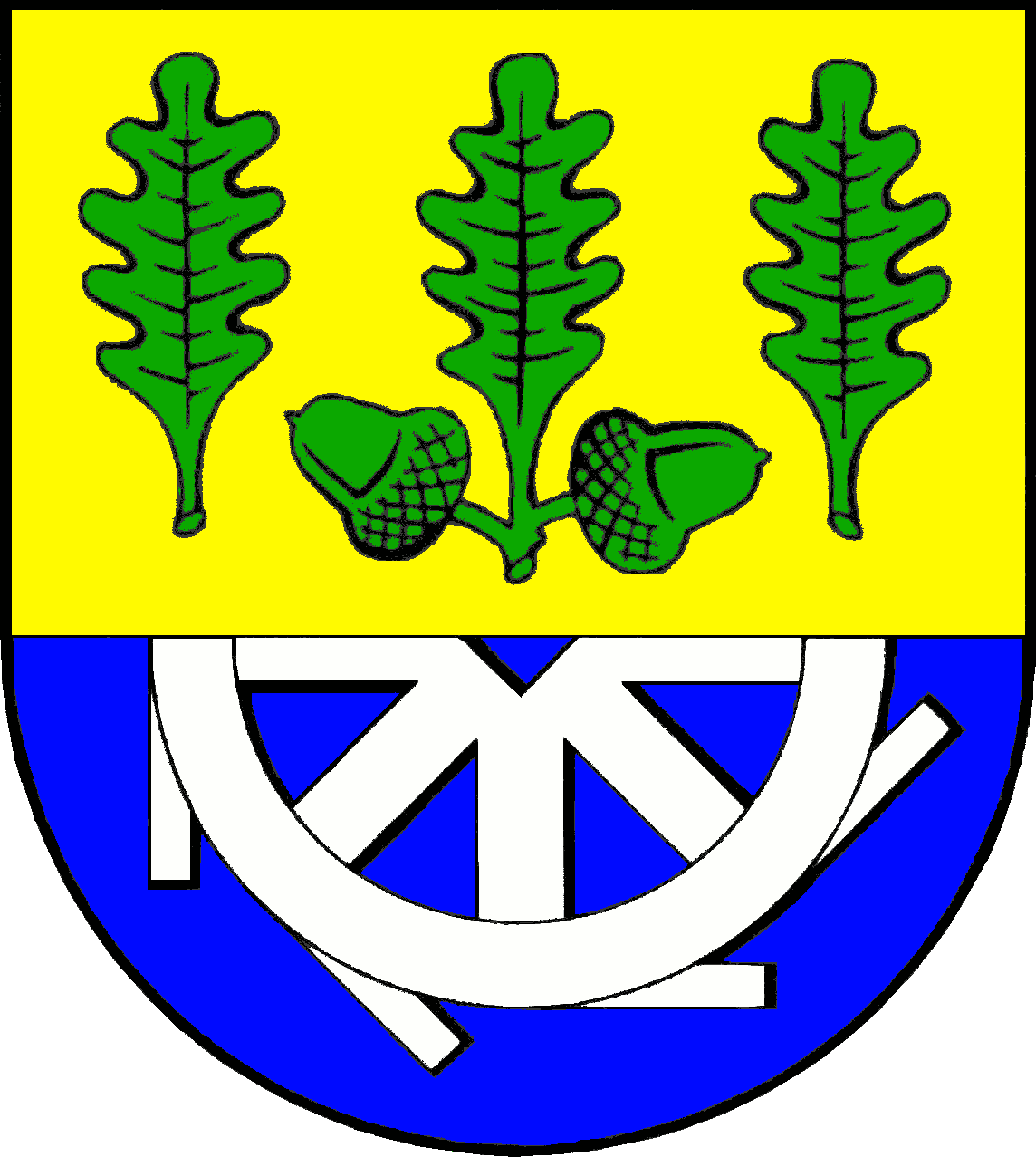 Coat of arms of the municipality Bollingstedt in Schleswig-Holstein, Germany